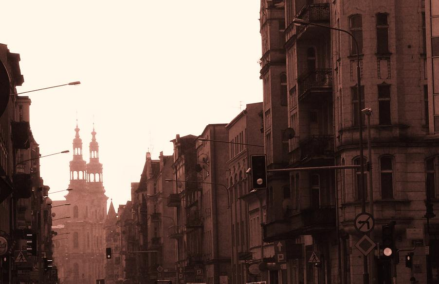 Garbary Street in Poznan.